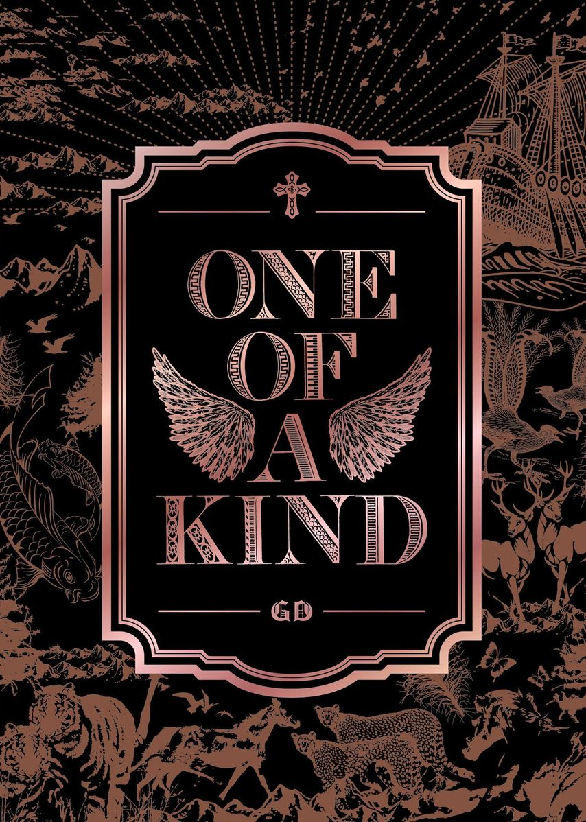 Album cover of One of a Kind by G-Dragon